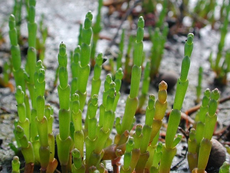 Salicornia spec., coast, Sylt, Germany